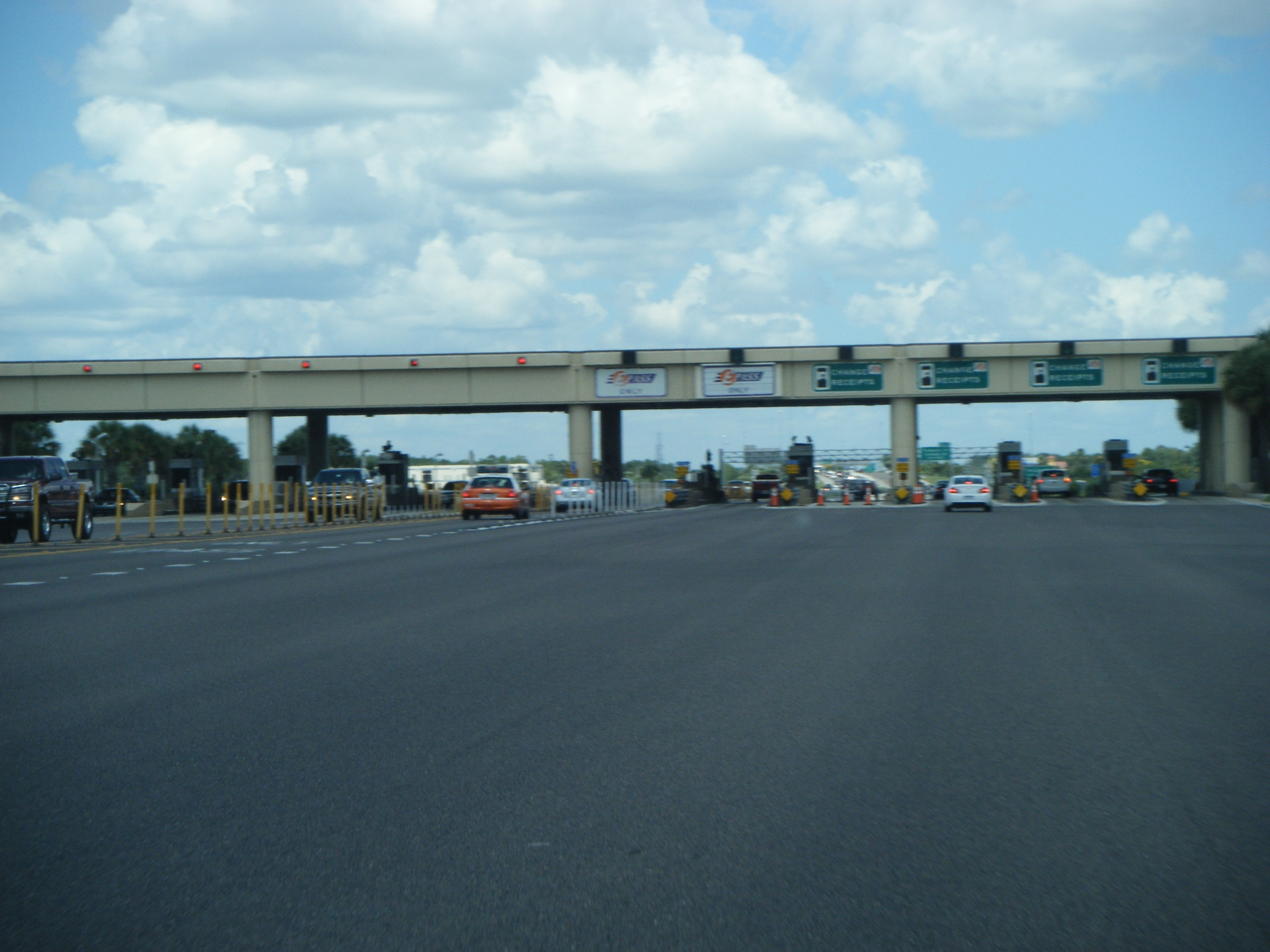 Westbound Florida State Road 528 (Martin Andersen Beachline Expressway) at the Airport Toll Plaza in Orlando